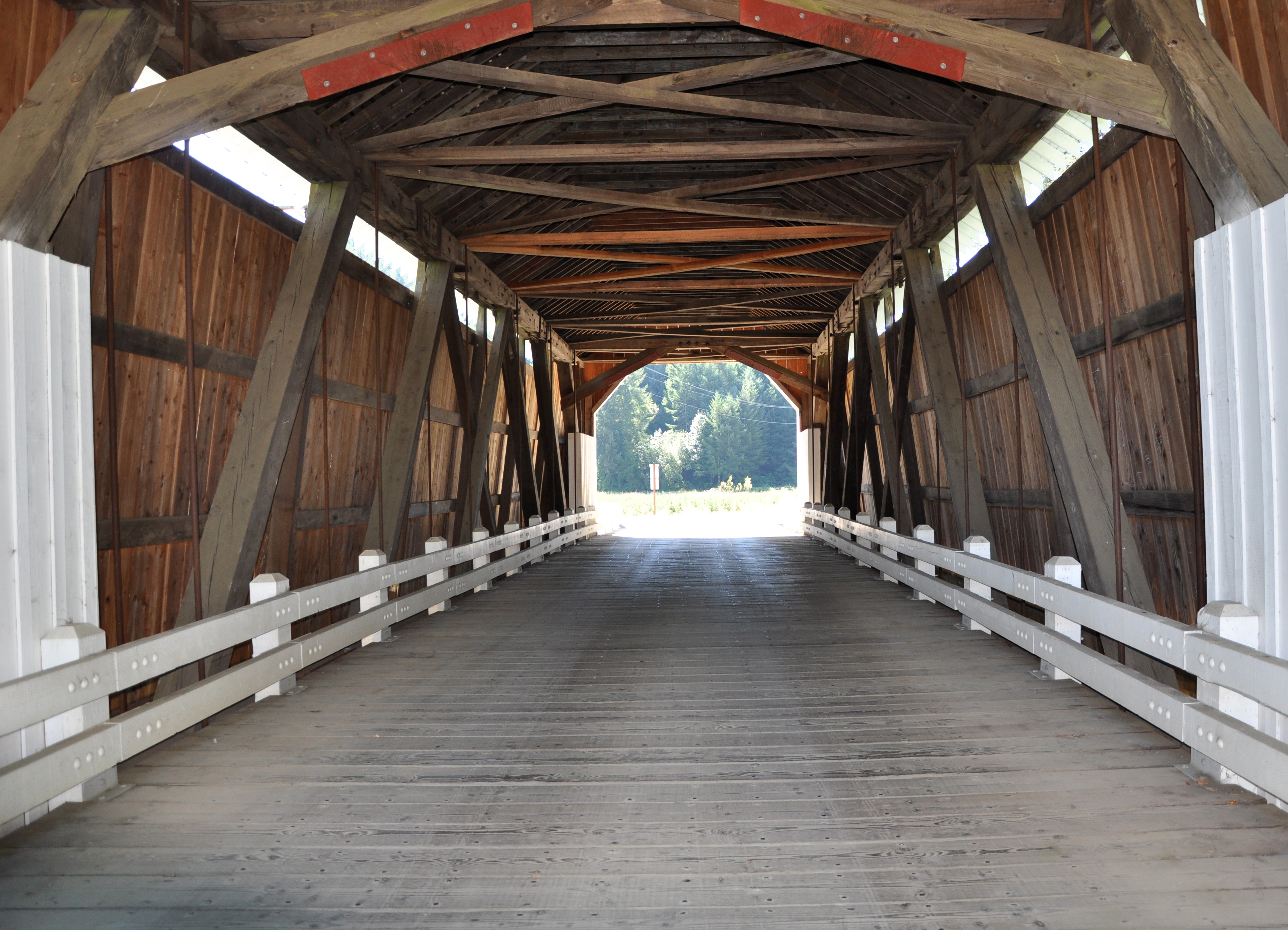 Interior of the Hayden Bridge over the Alsea River in the U.S. state of Oregon. View is to the south along Hayden Road, just south of its intersection with Oregon Route 34 about 2 miles (3.2 km) west of Alsea, Oregon.